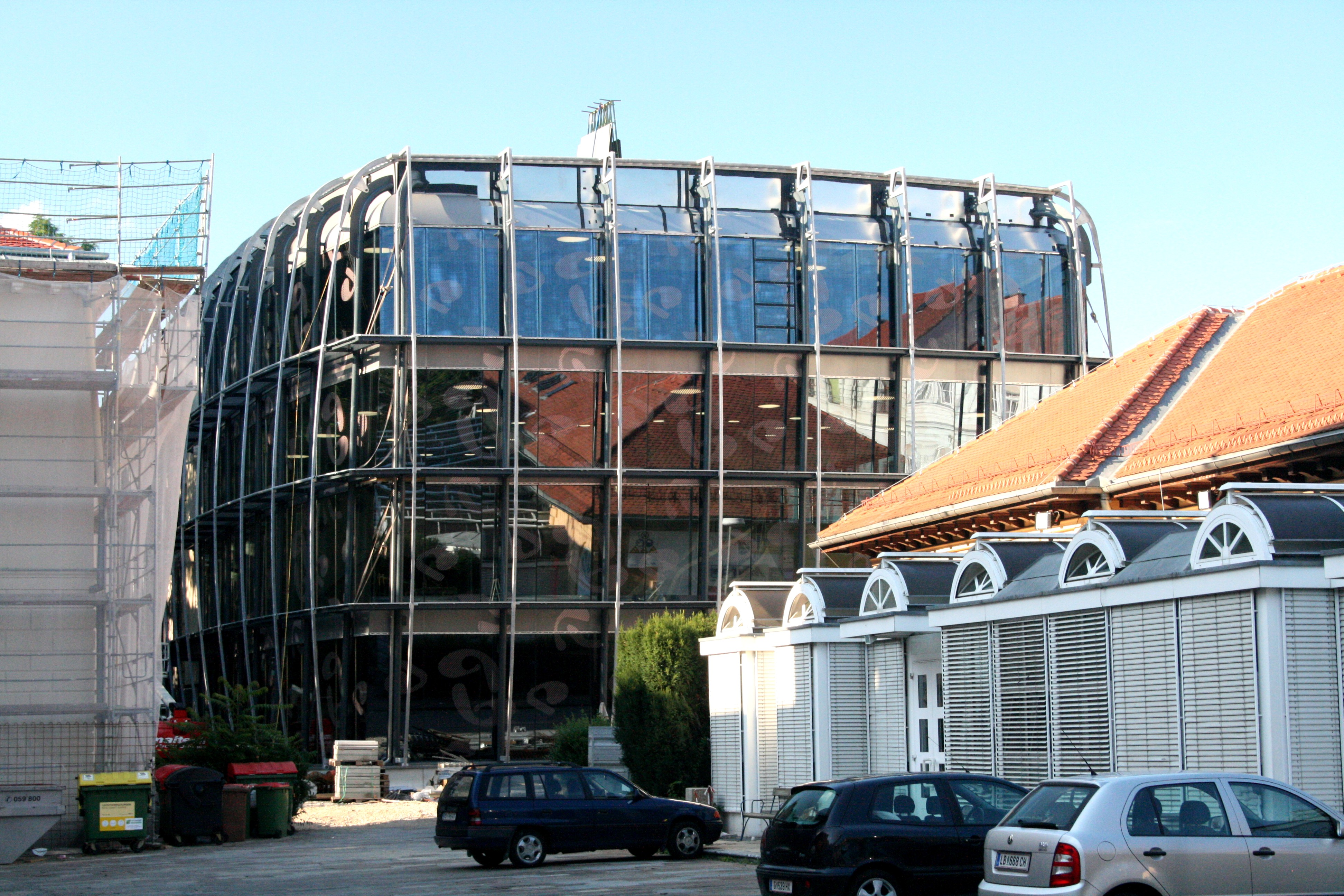 University of Arts, Graz, Austria, Europe: new building "Mumuth", during construction